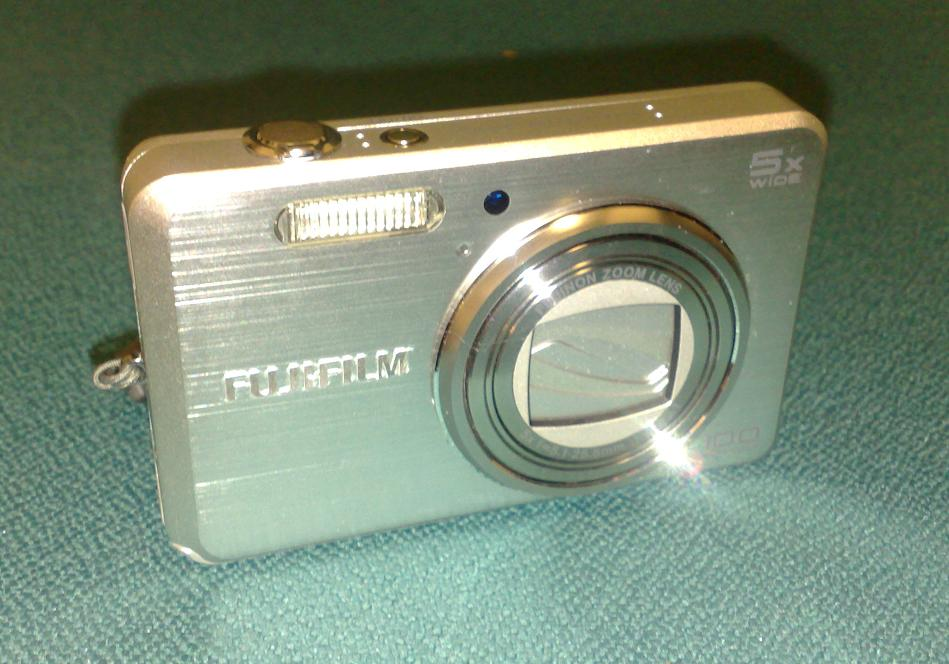 finePix J150W camera in silver